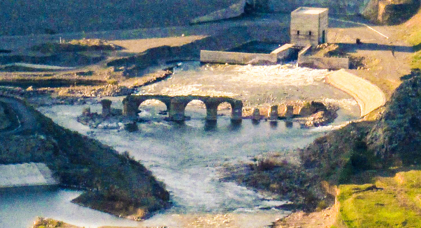 Khudafarin bridge with 11 archs